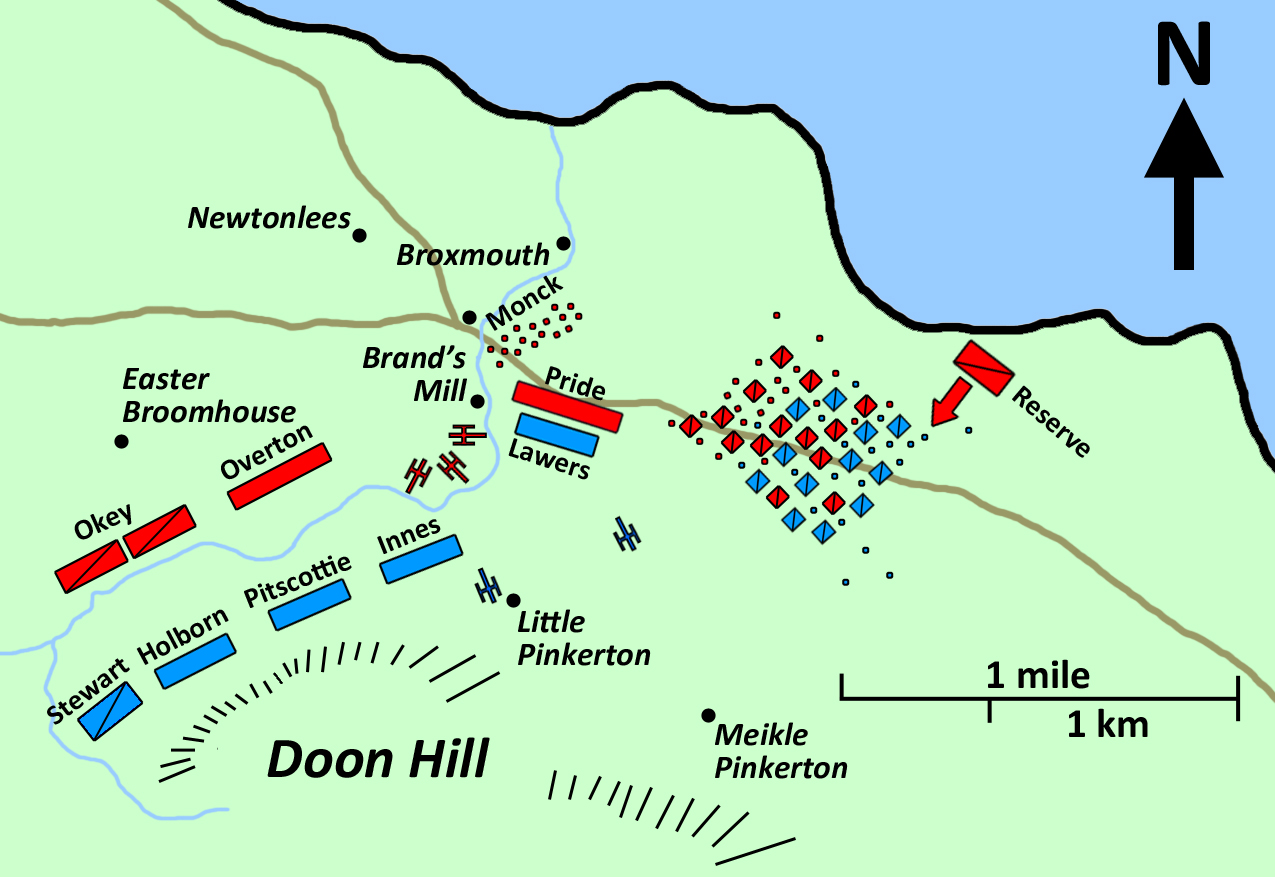 The Battle of Dunbar took place during the War of the Three Kingdoms, in what is commonly referred to as the "Third English Civil War". This map depicts the general layout of the two armies at 0700. The Scottish army is labelled in blue, while the English army is in red.